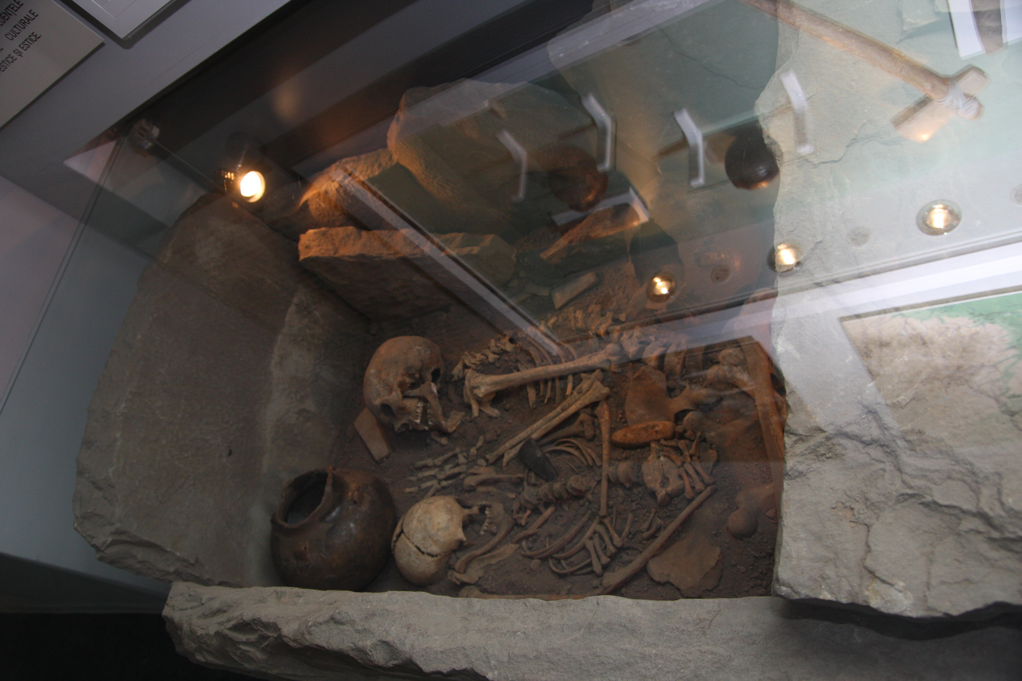 Globular Amphora Culture Tomb